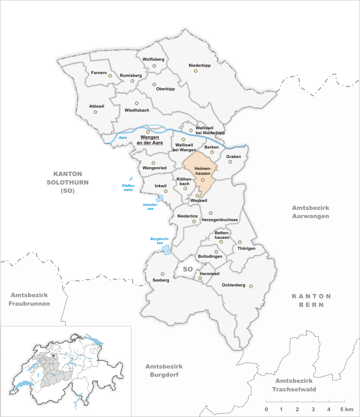 Municipality Heimenhausen